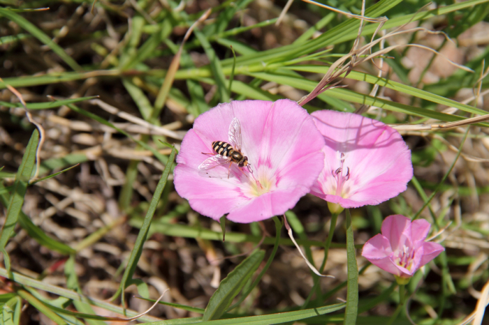 I am a perennial herb with glabrous or pubescent leaf blades that is ovate-oblong to ovate, about 1.5 to 5 cm long and 1 to 4cm wide. I mainly reproduce by seeding.